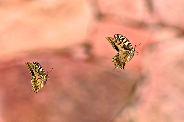 Author: Dorota Kycia, title:Couple